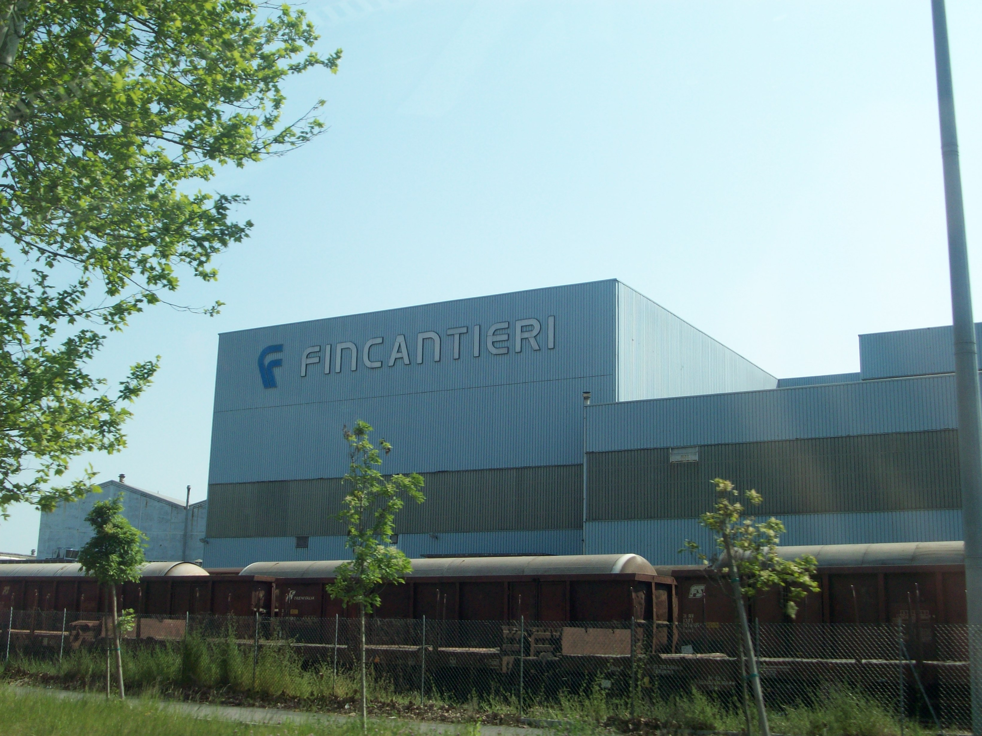 Fincantieri operation station in venice